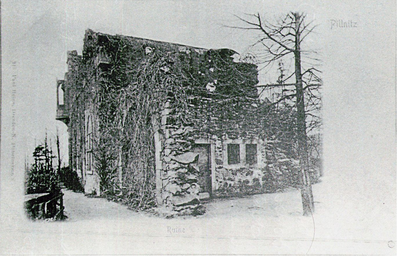 View of the artificial ruin from southwest in 1918, Pillnitz near Dresden